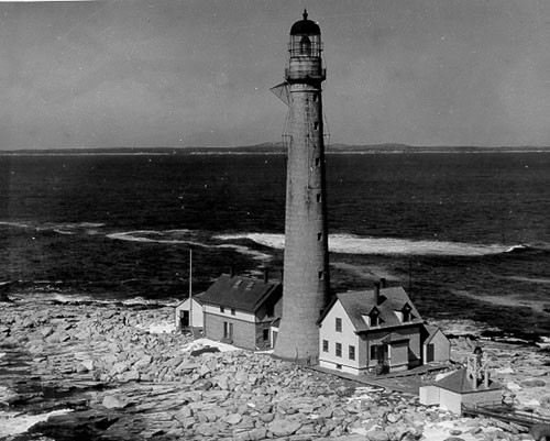 Boon Island Light, Maine